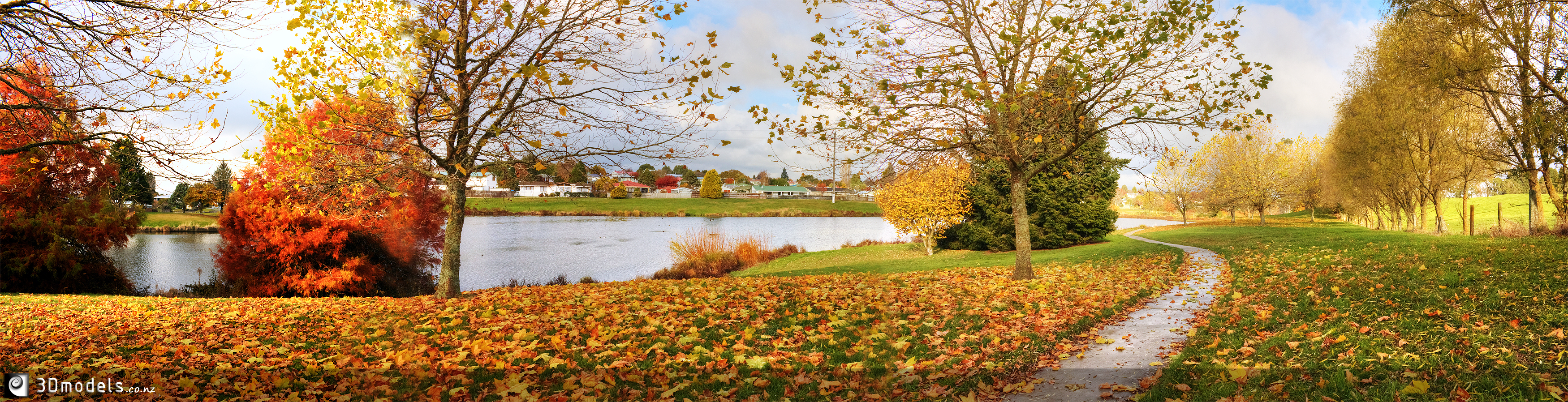 Autumnal colours in the town of Tokoroa, New Zealand, taken in autumn 2012